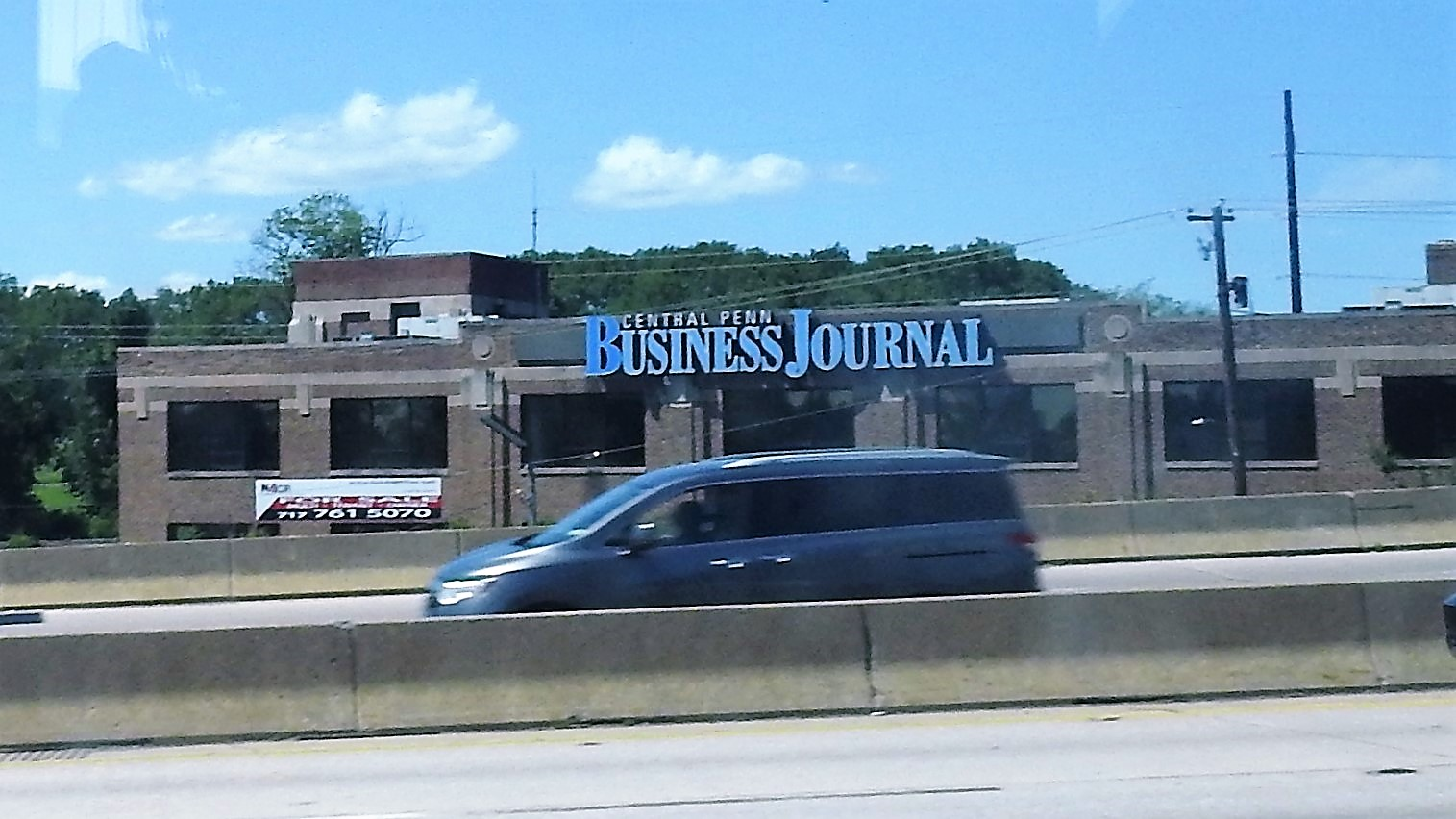 Looking at building from a passing bus